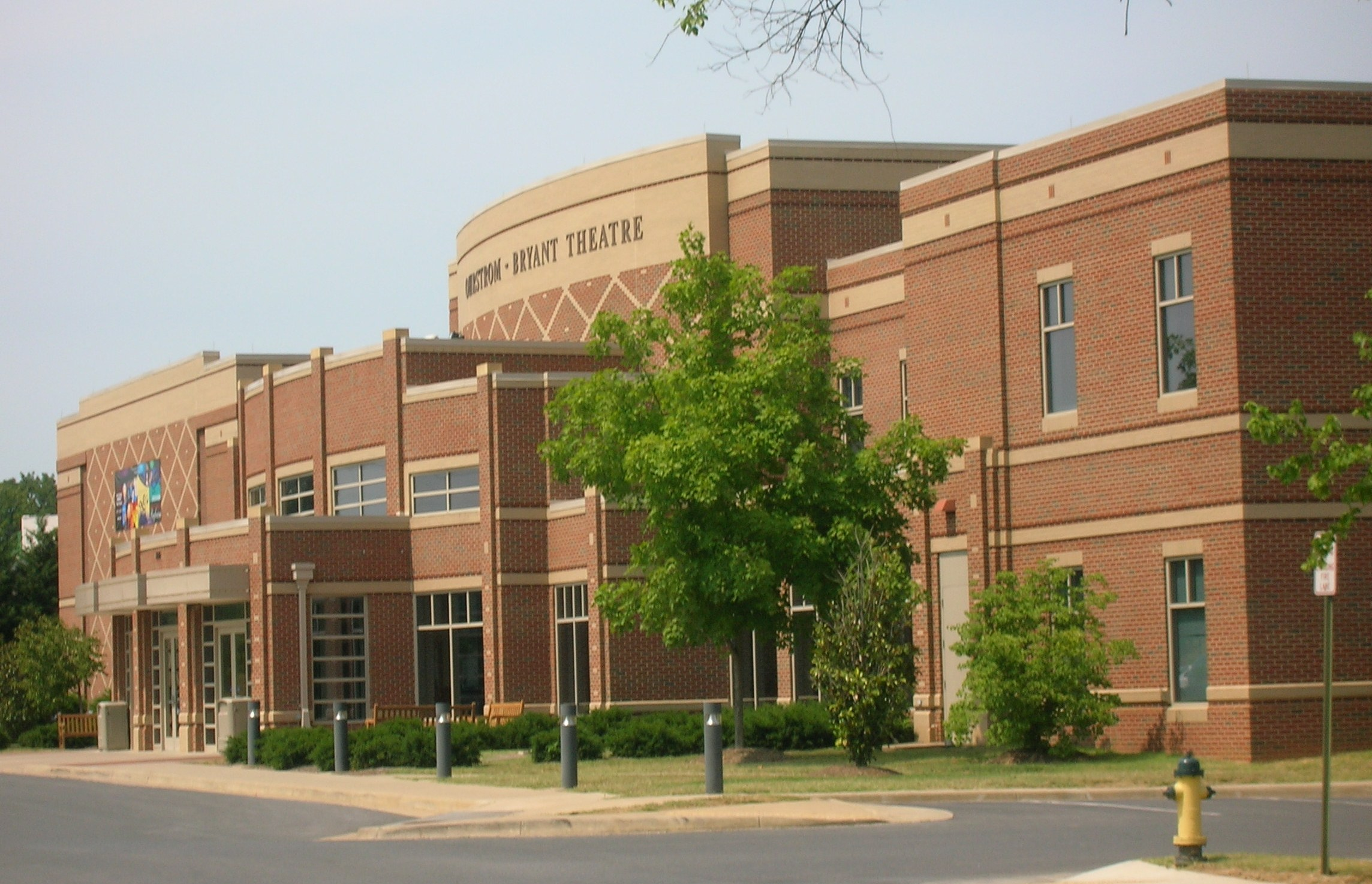 entirely my own work